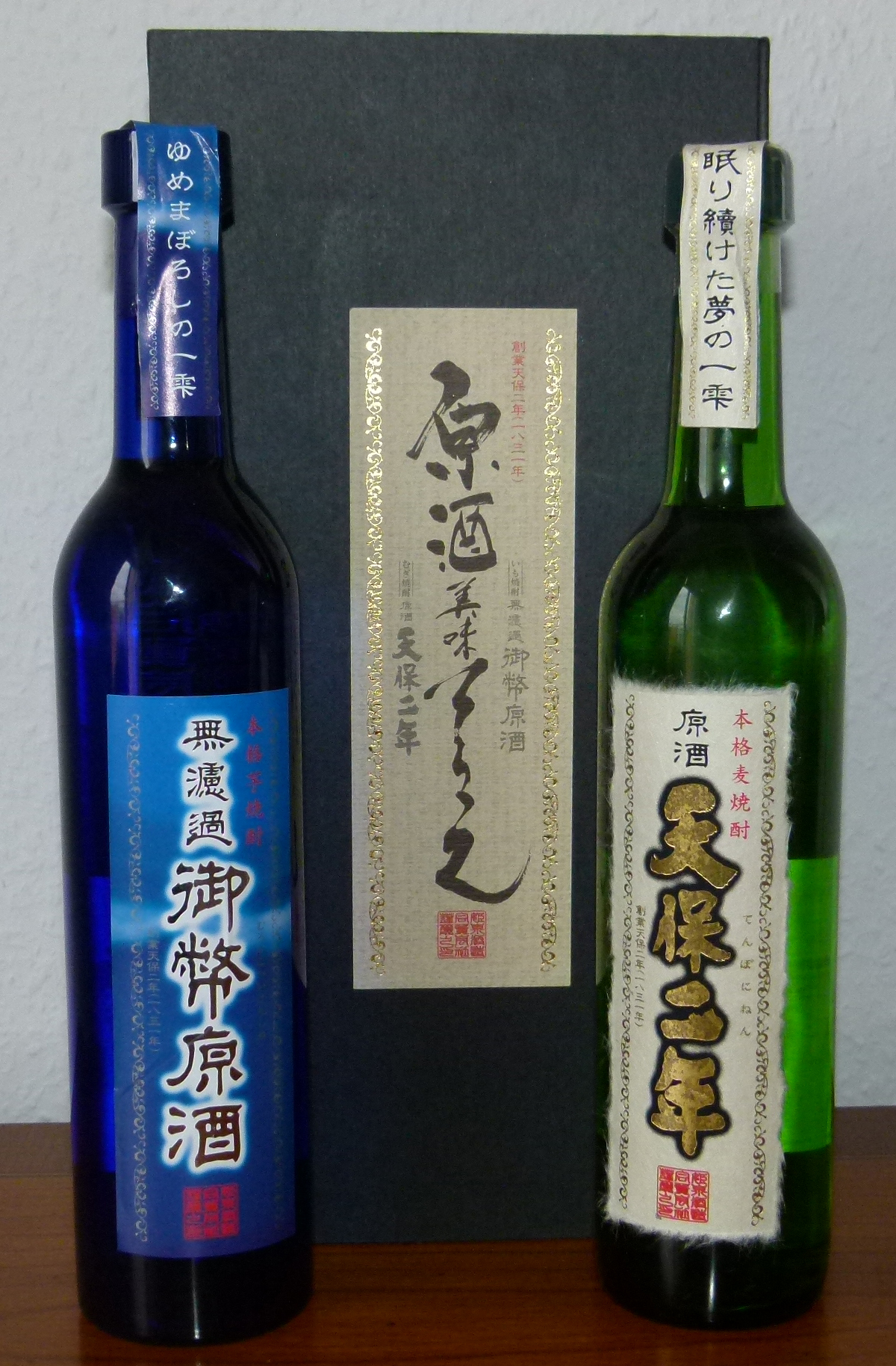 Japanese Shōchū